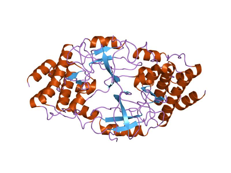 Cartoon representation of the molecular structure of protein registered with 1k2p code.